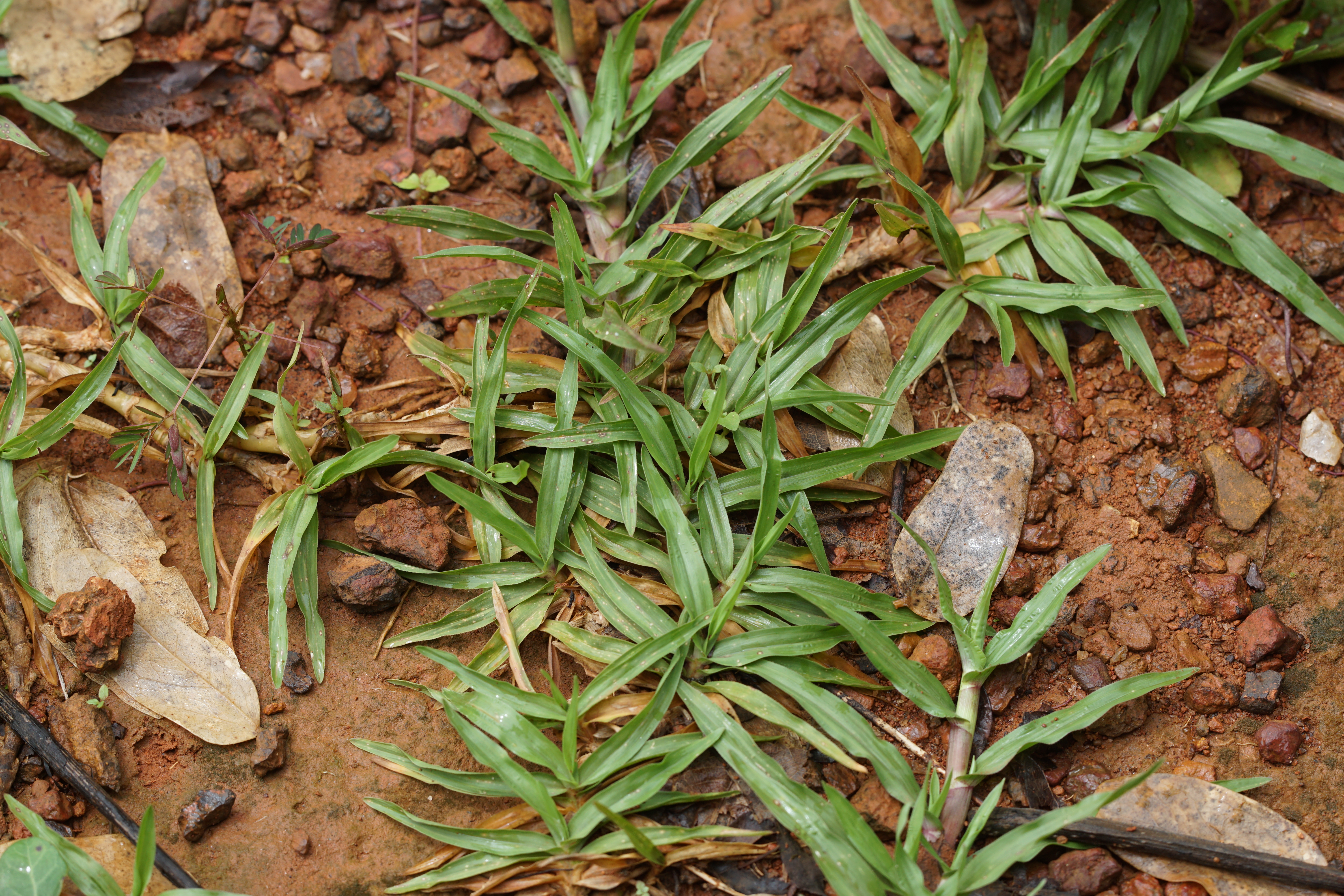 Chrysopogon aciculatus